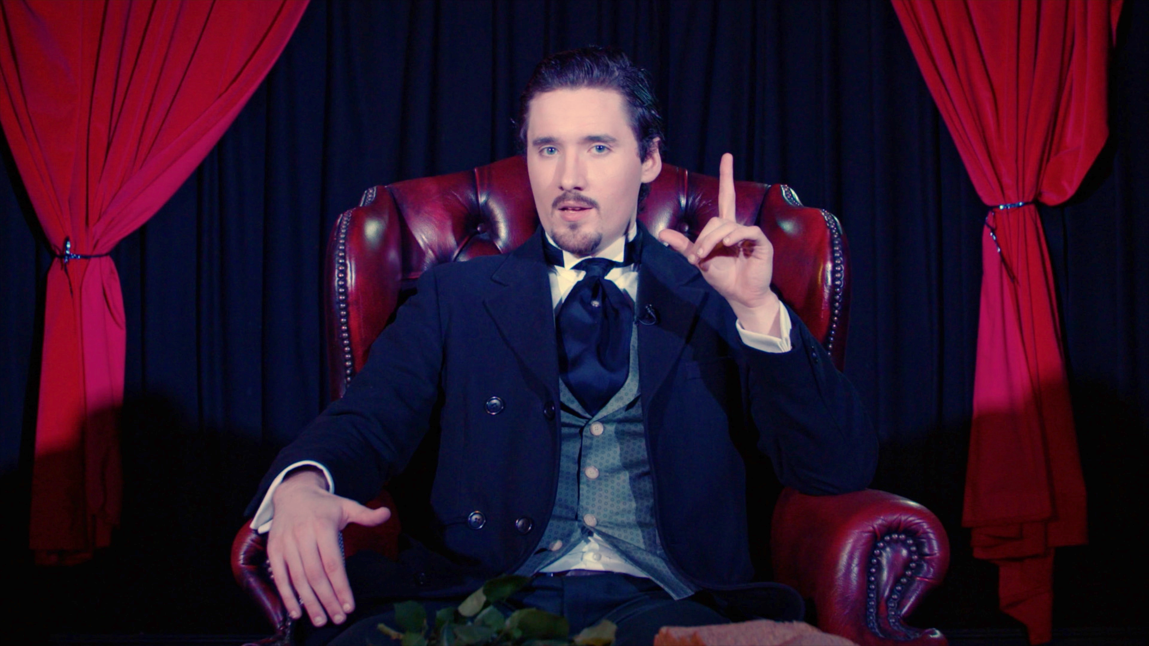 Olly Thorn performing in Philosophy Tube episode "Sex Work".